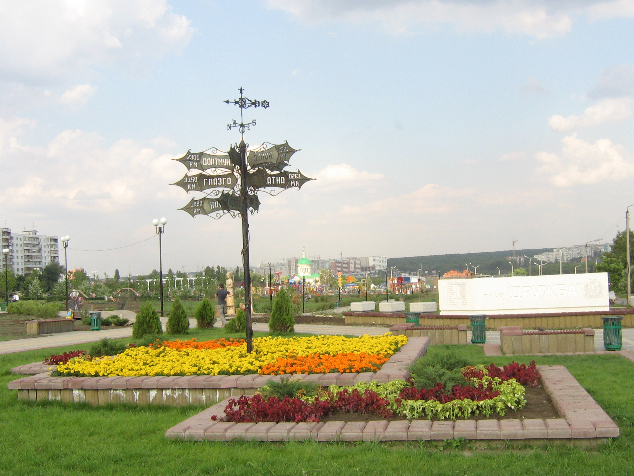 Park of friendship (Rostov-on-Don)